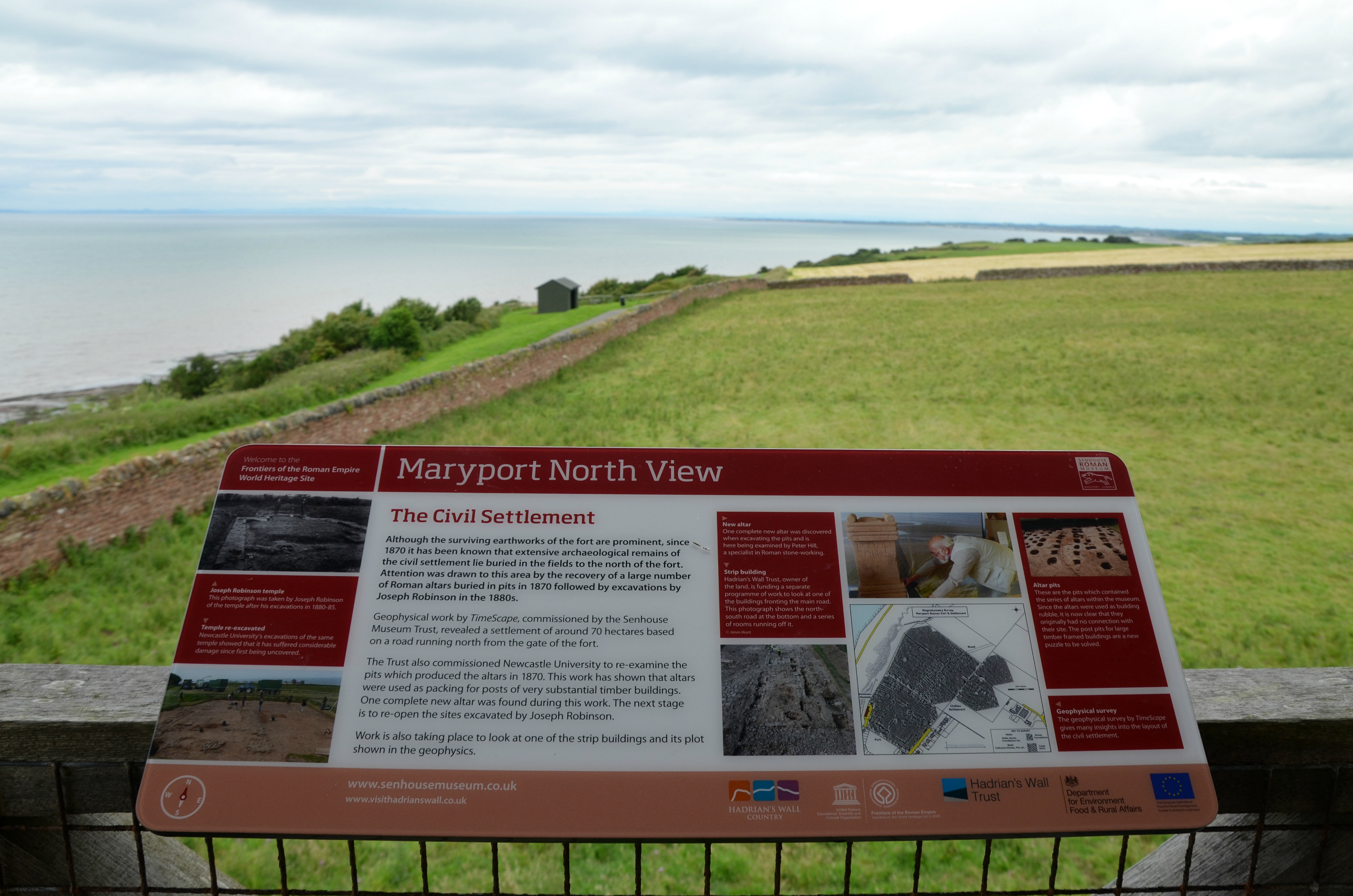 Senhouse Museum, Maryport, UK